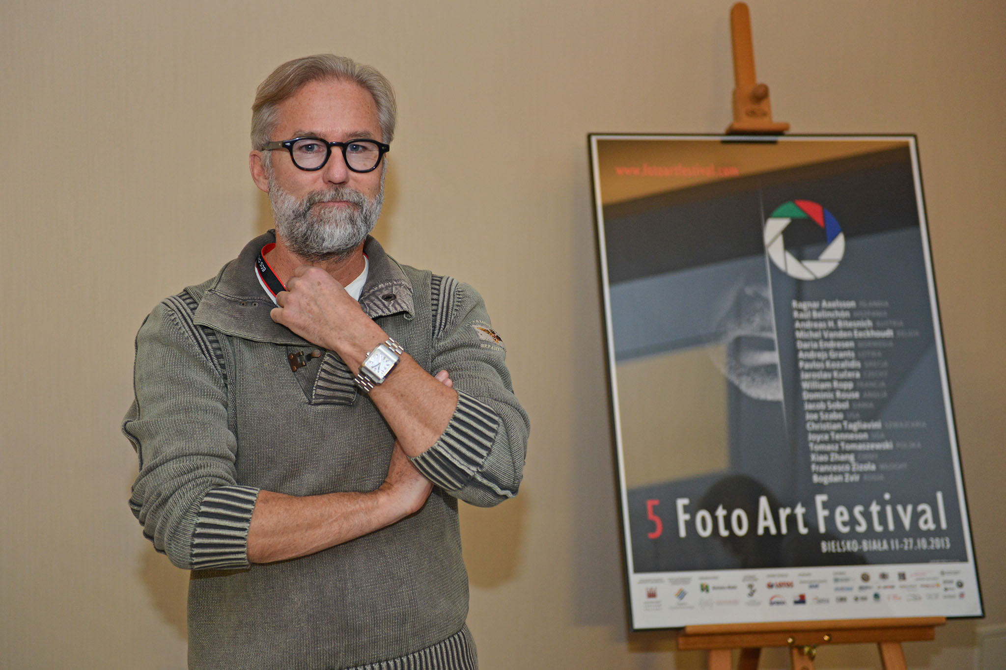 Ragnar Axelsson, famous Icelandic photographer during FotoArtFestival, Bielsko-Biala, Poland, 2013